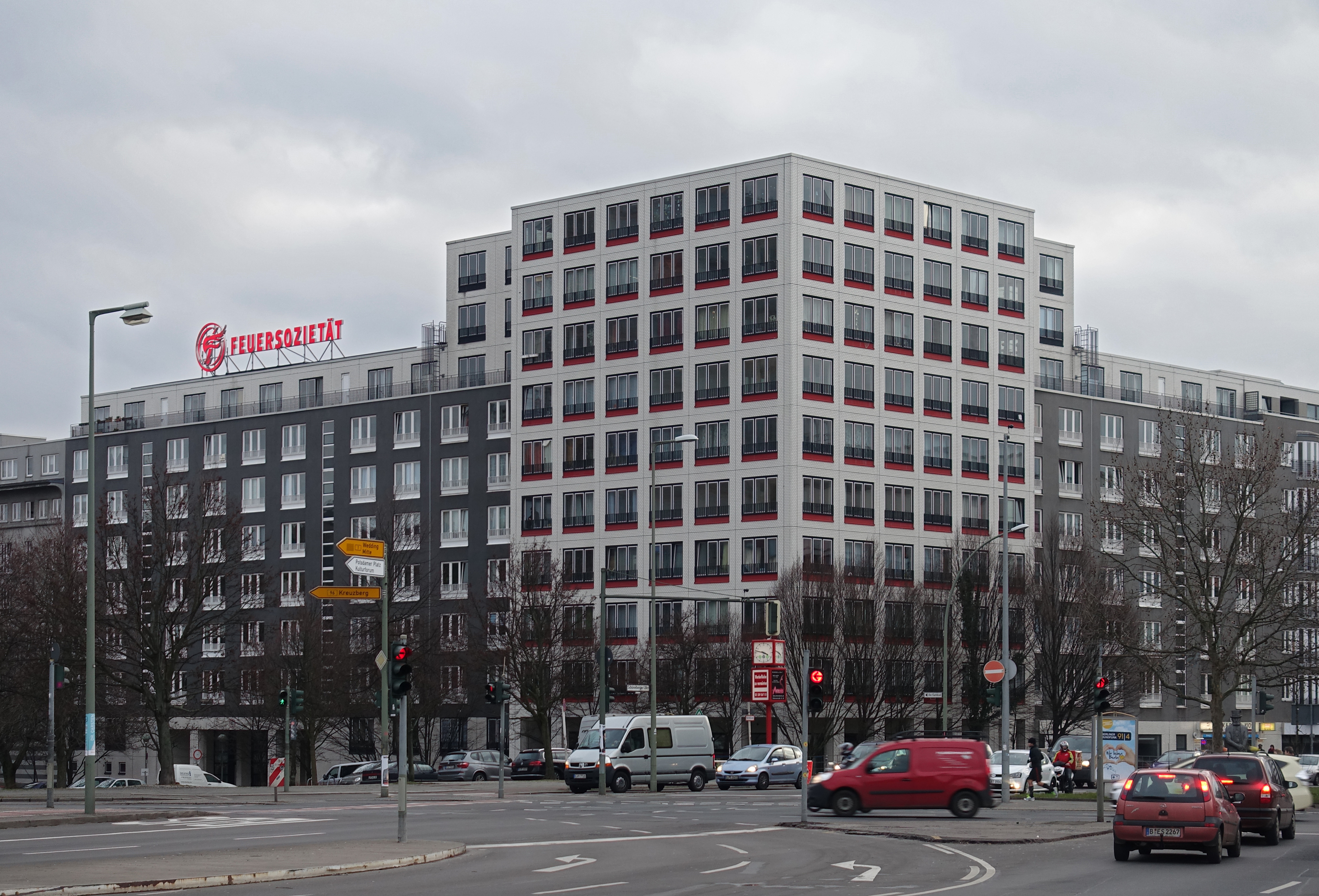 Housing project Wohnen Am Karlsbad in Berlin by architect Jürgen Sawade, completion 1987